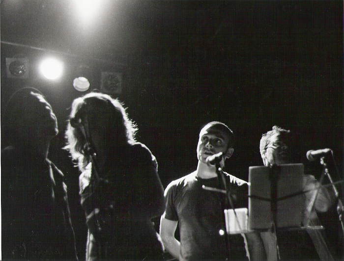 Do Make Say Think. 20 October 2007. Phoenix Concert Theatre.